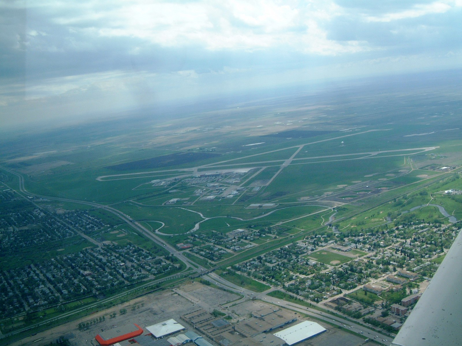 Regina Airport (CYQR).